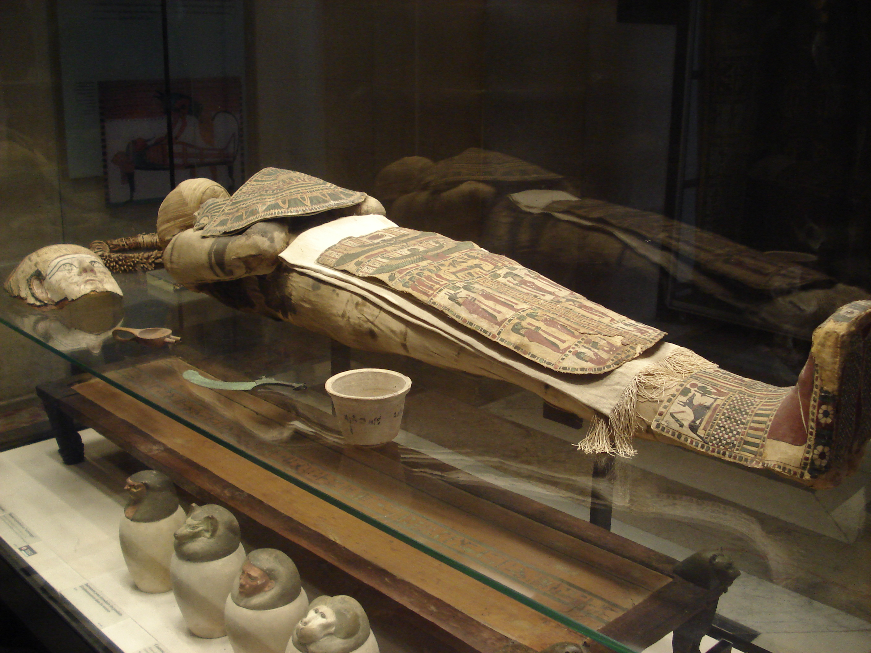 Louvre Museum